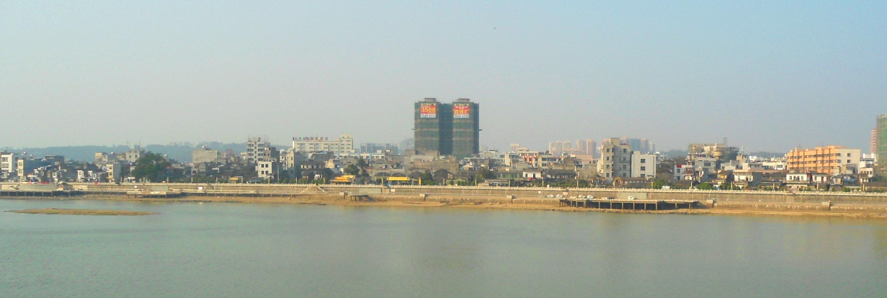 Chengmai skyline viewed from the south side of the Nandu River, Hainan, China.